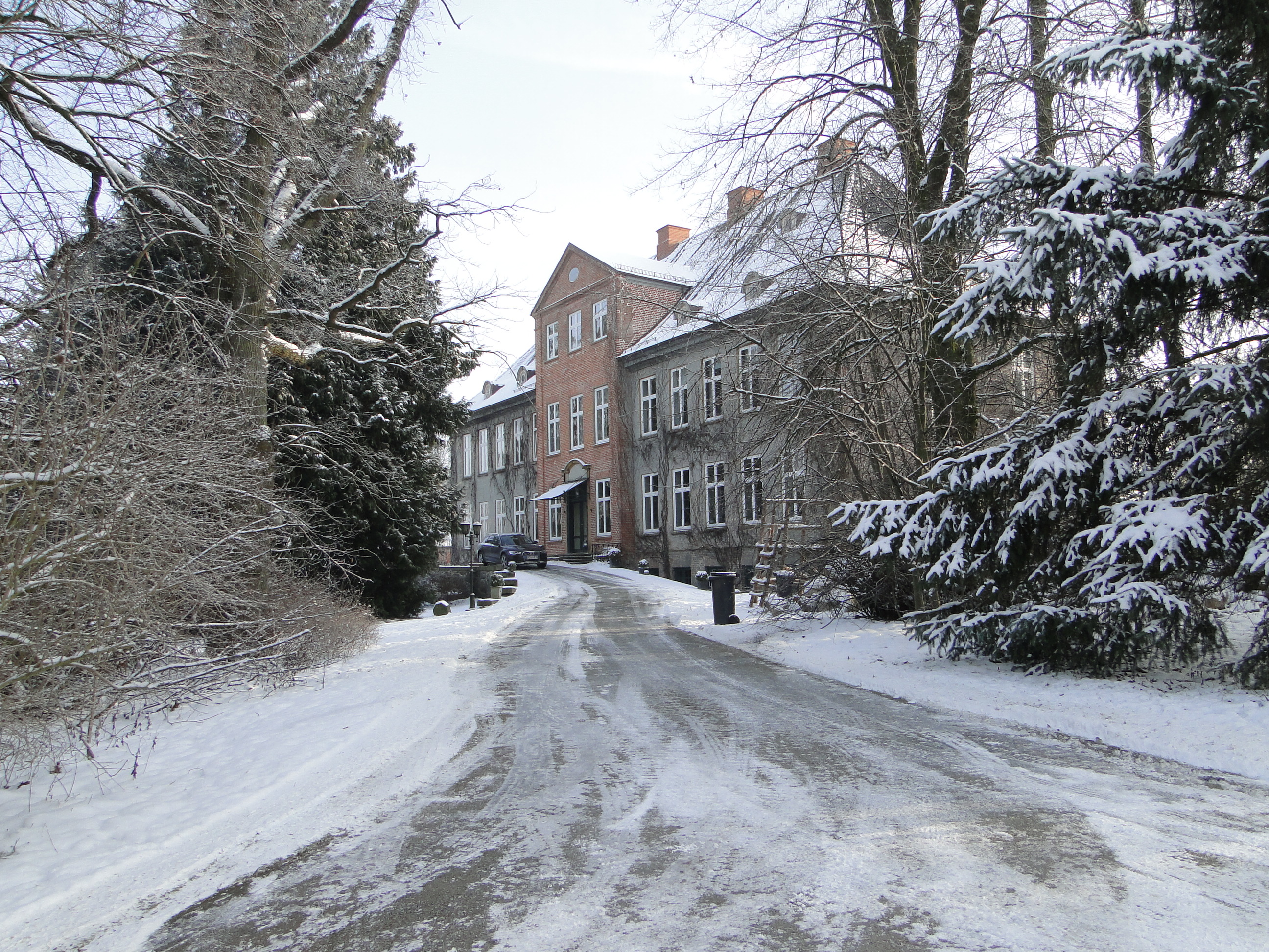 Manor house in Drönnewitz, district Ludwigslust-Parchim, Mecklenburg-Vorpommern, Germany